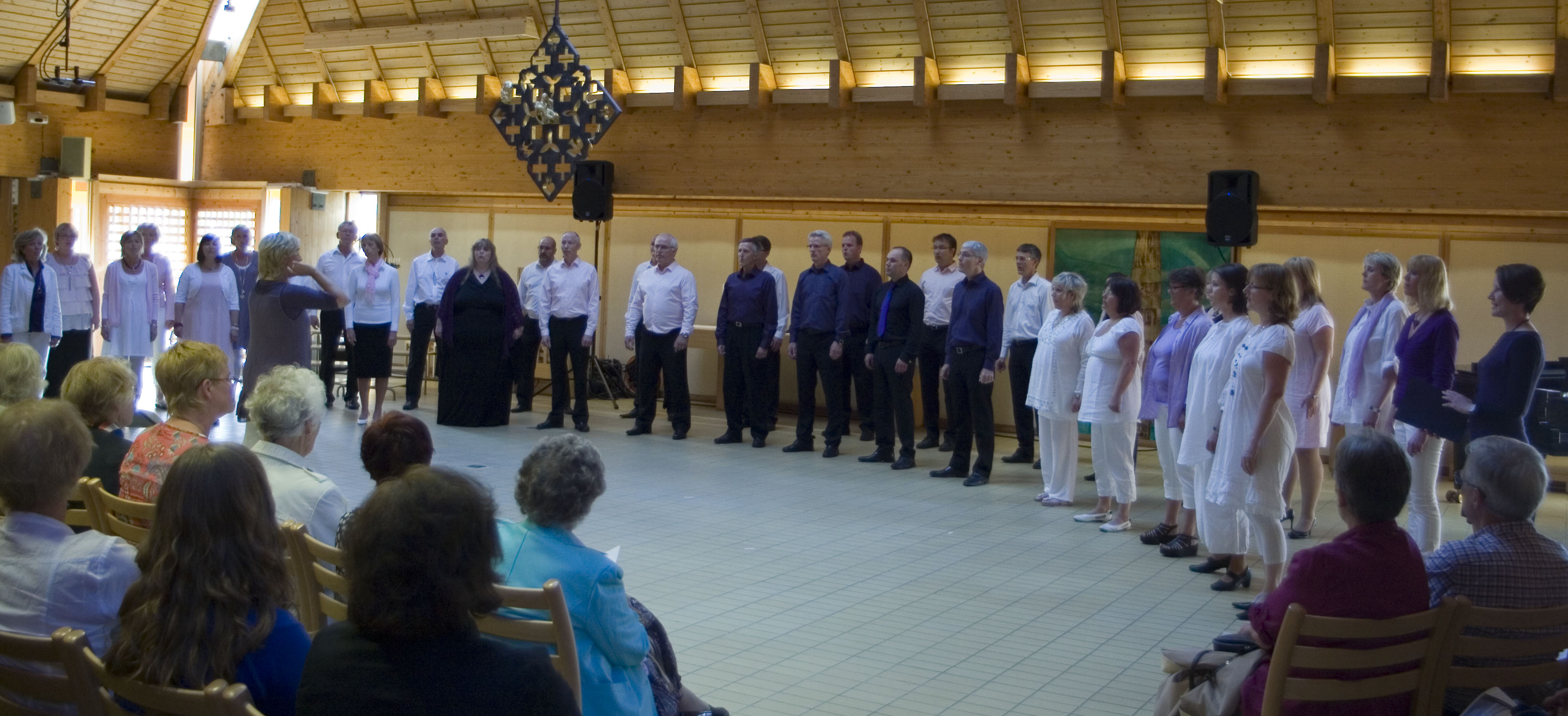 The chamber choir Sola Fide in Søreide church